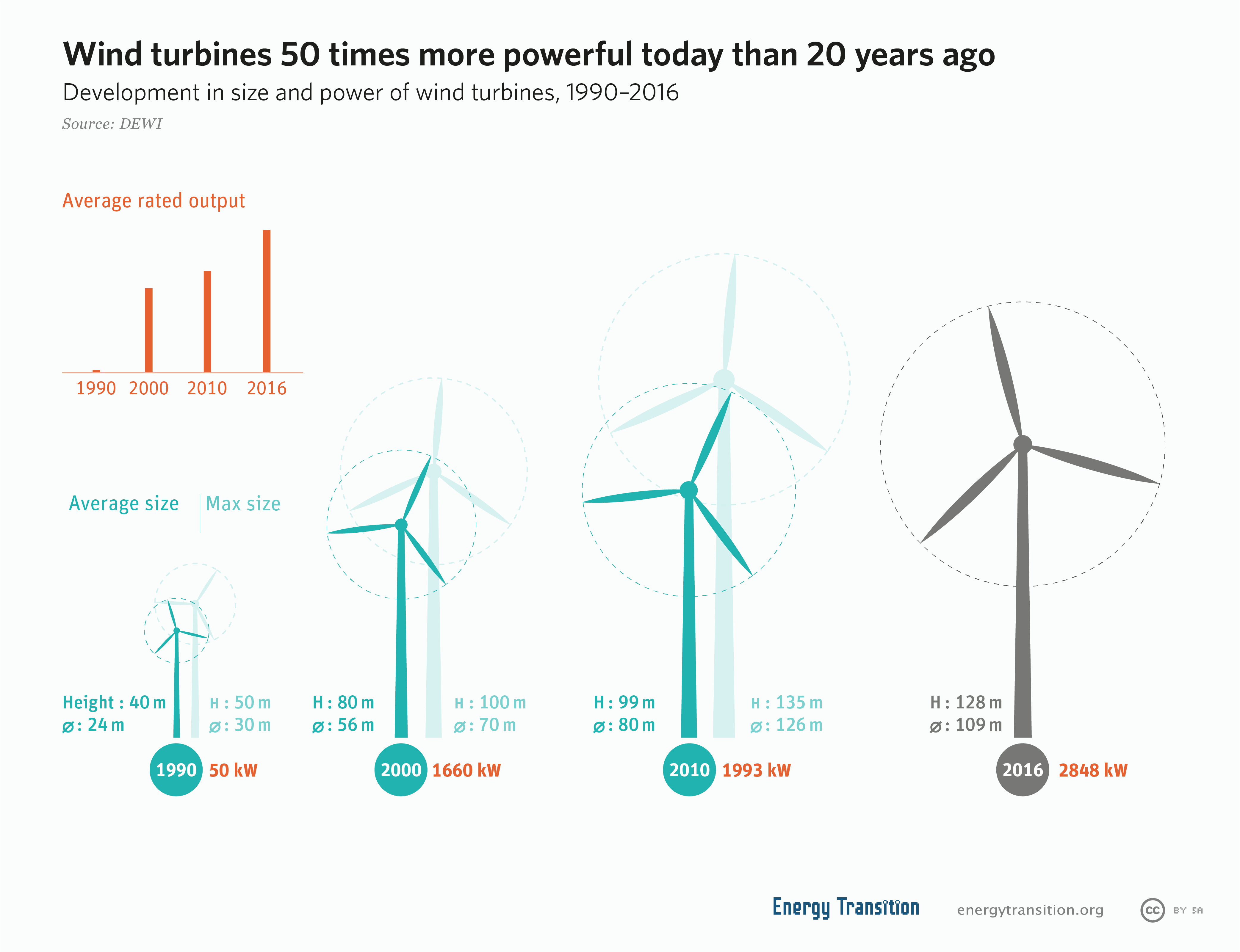 Wind turbines 50 times more powerful today than 20 years ago